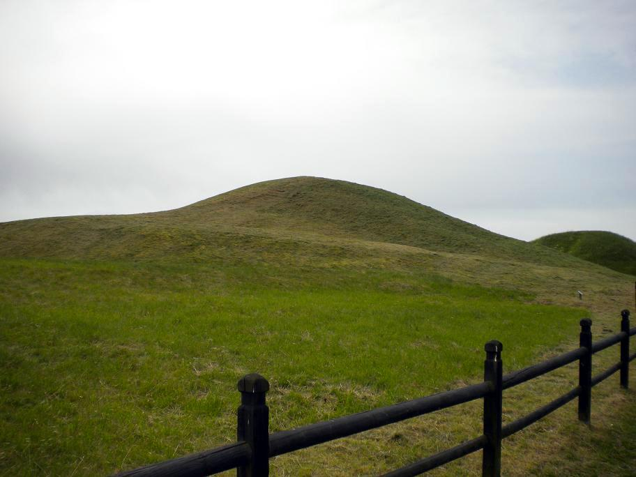 The middle one of the three large royal tumuli at Old Upsala, this one popularly called Freyja’s Mound Frös hög and through the disputed findings of archaeologist Birger Nerman identified as the grave of a 5th century King Ongentheow (Angantyr, Egil Tunnadolg), though the identities of the three buried kings also have been interchanged by some writers and completely refuted by othersPlace: Upsala, Sweden